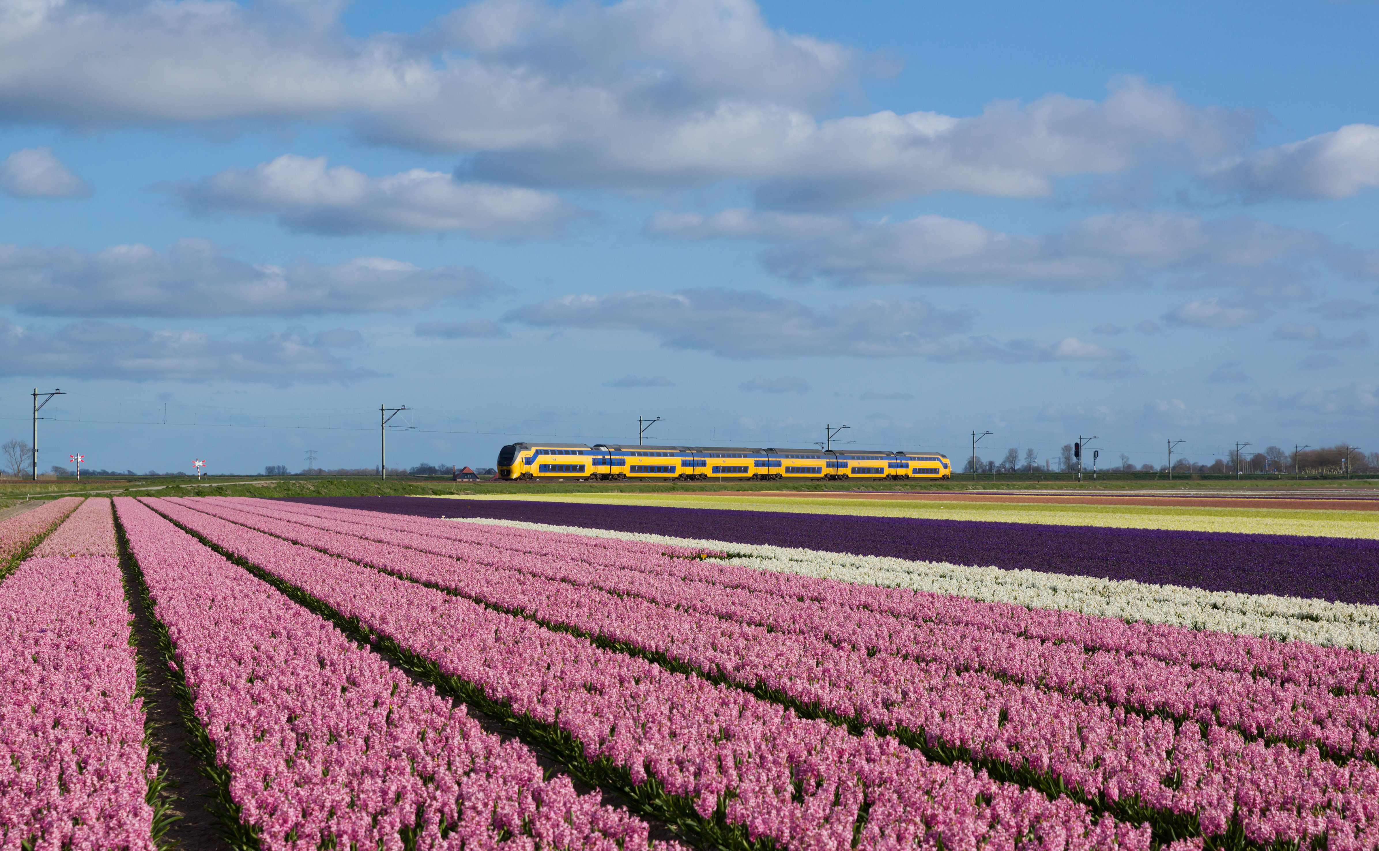 An Intercity from Amsterdam to Den Helder passes a field in full bloom near Schagen, Netherlands.